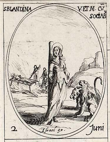 Saint Blandine's martyrdom at Lyons, drawn by Jacques Callot, 1630-36, for a Saints Calendar book.